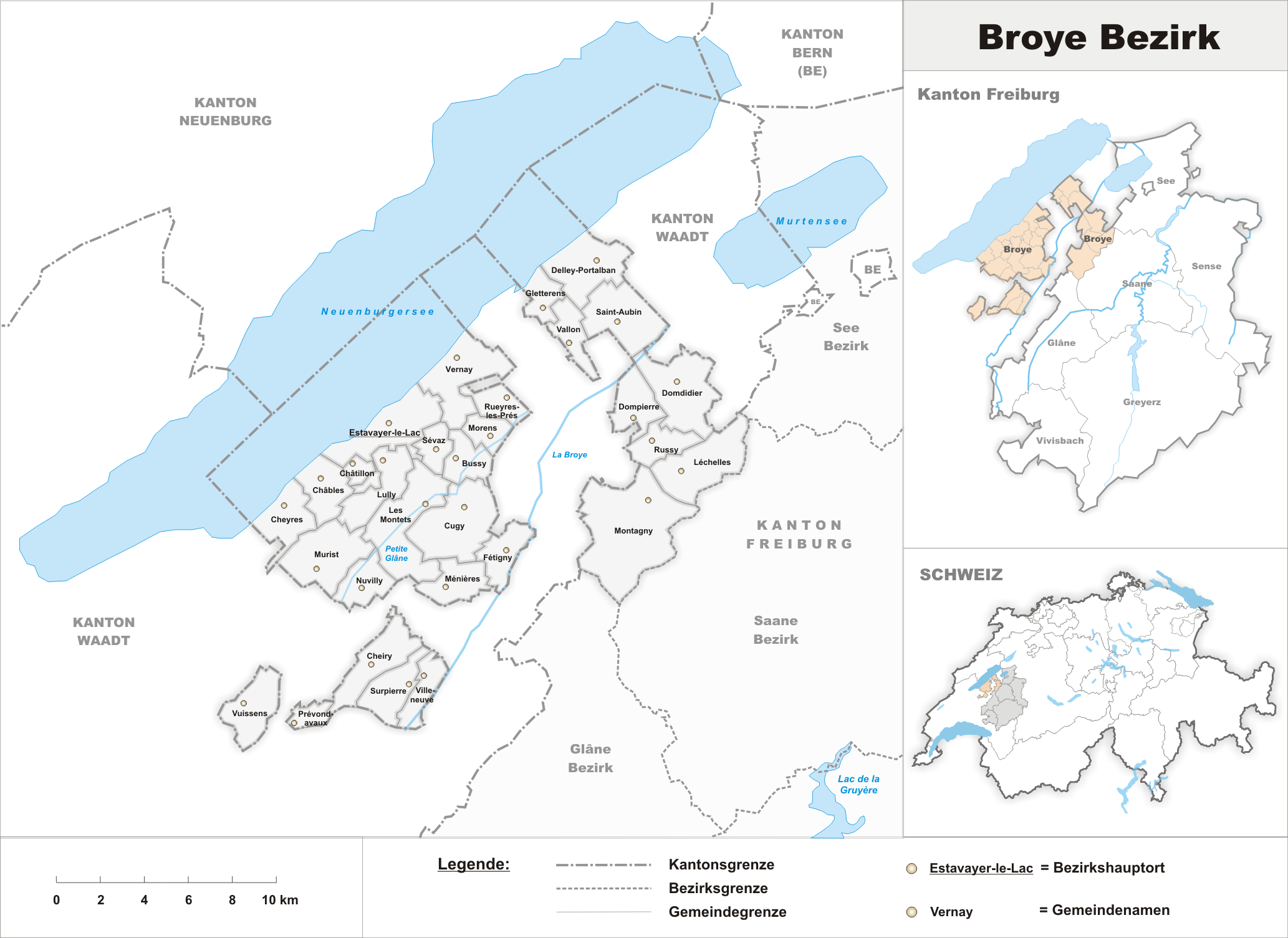 Municipalities in the district of Broye